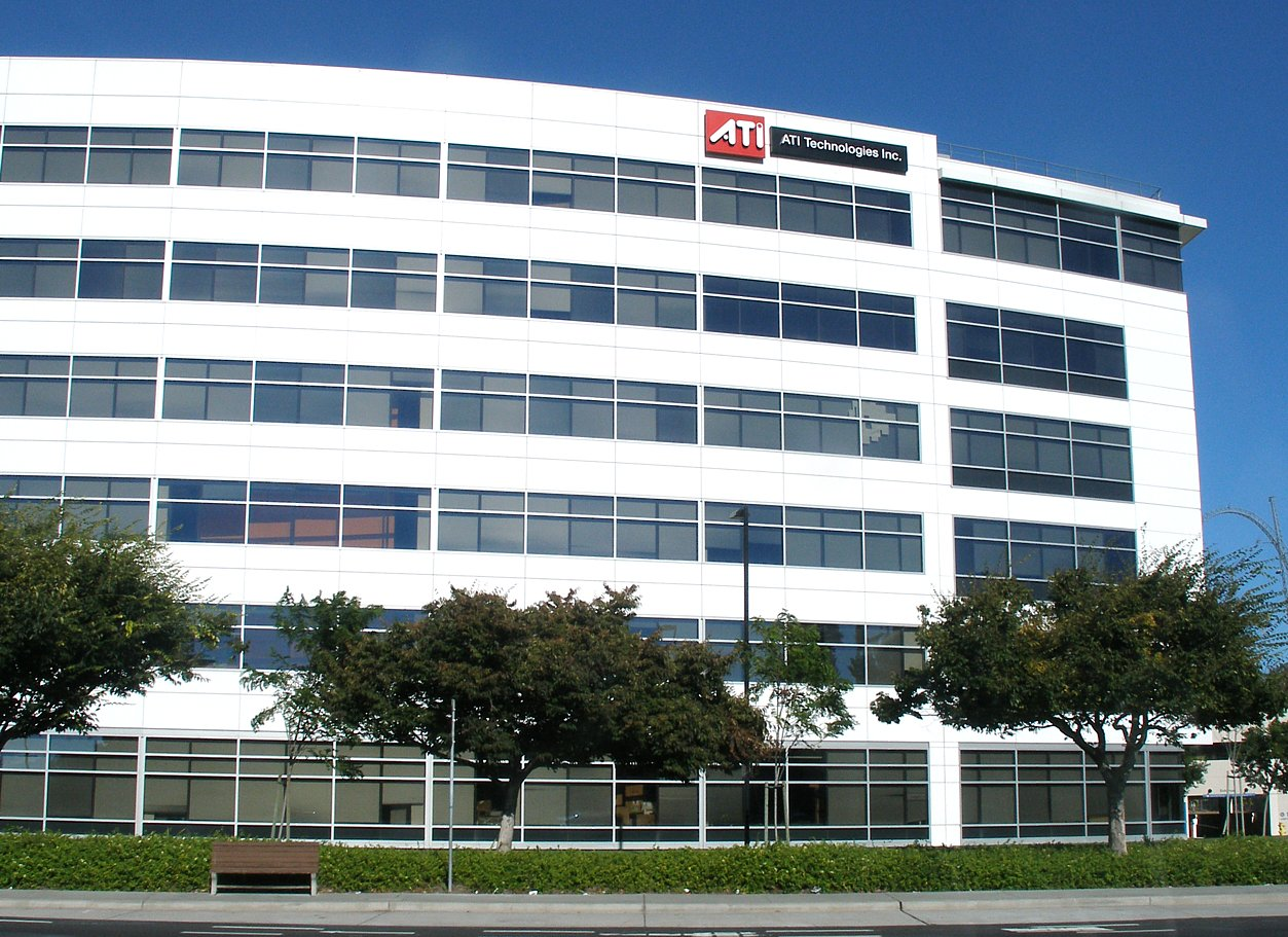 The building which houses the Silicon Valley offices of ATI Technologies, in Santa Clara, California. The curvature is not an optical distortion; both the street (Great America Parkway) and the building are curved. Photographed by user Coolcaesar on September 9, 2006.